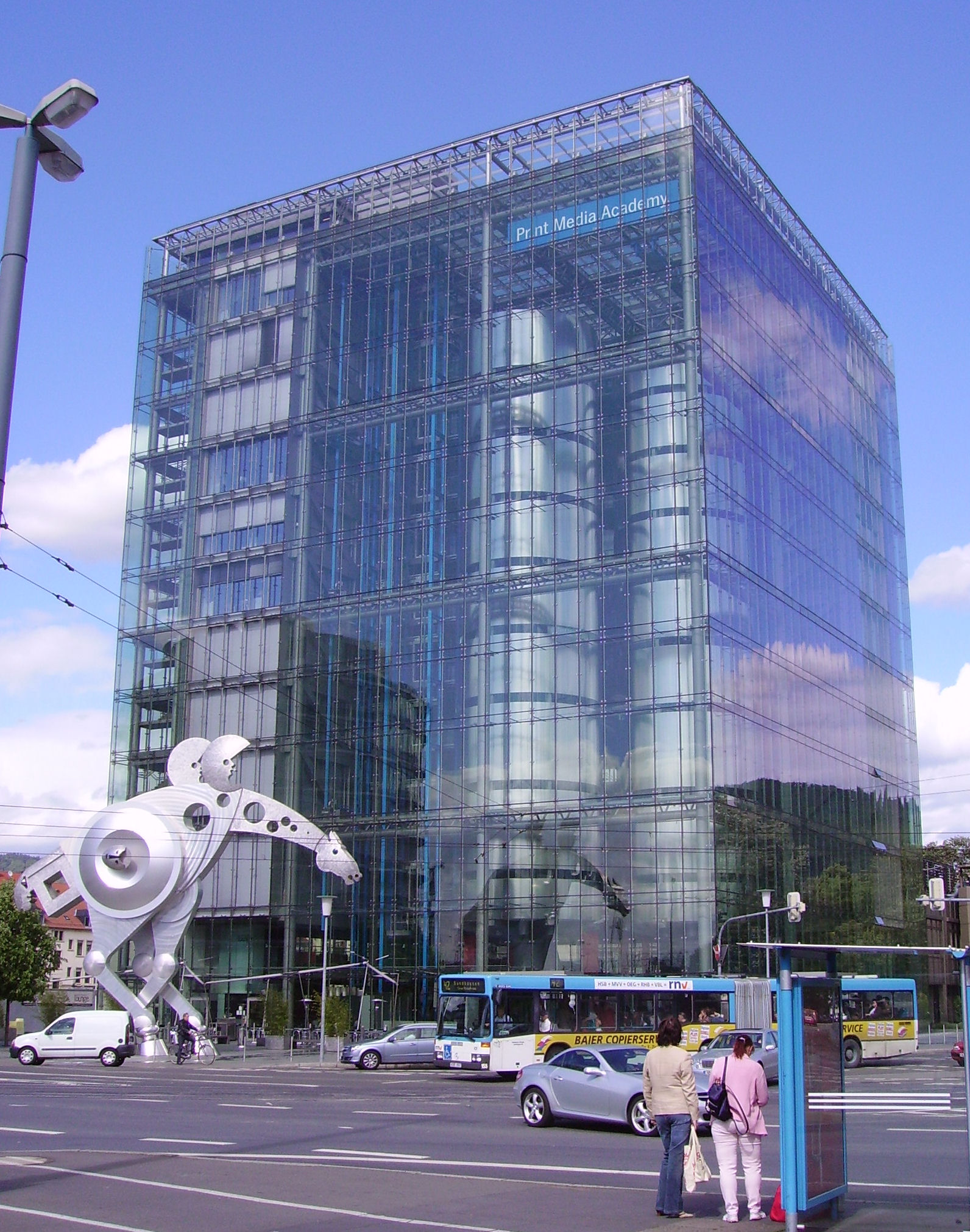 views of Heidelberg, Germany